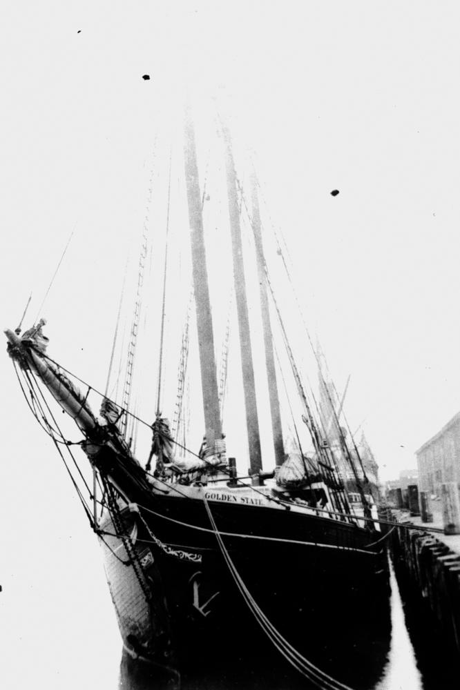 Golden State (ship) Built 1901. Ex. William F. Garms. 215.5 x 40.7 x 16 (Information supplied with photograph).